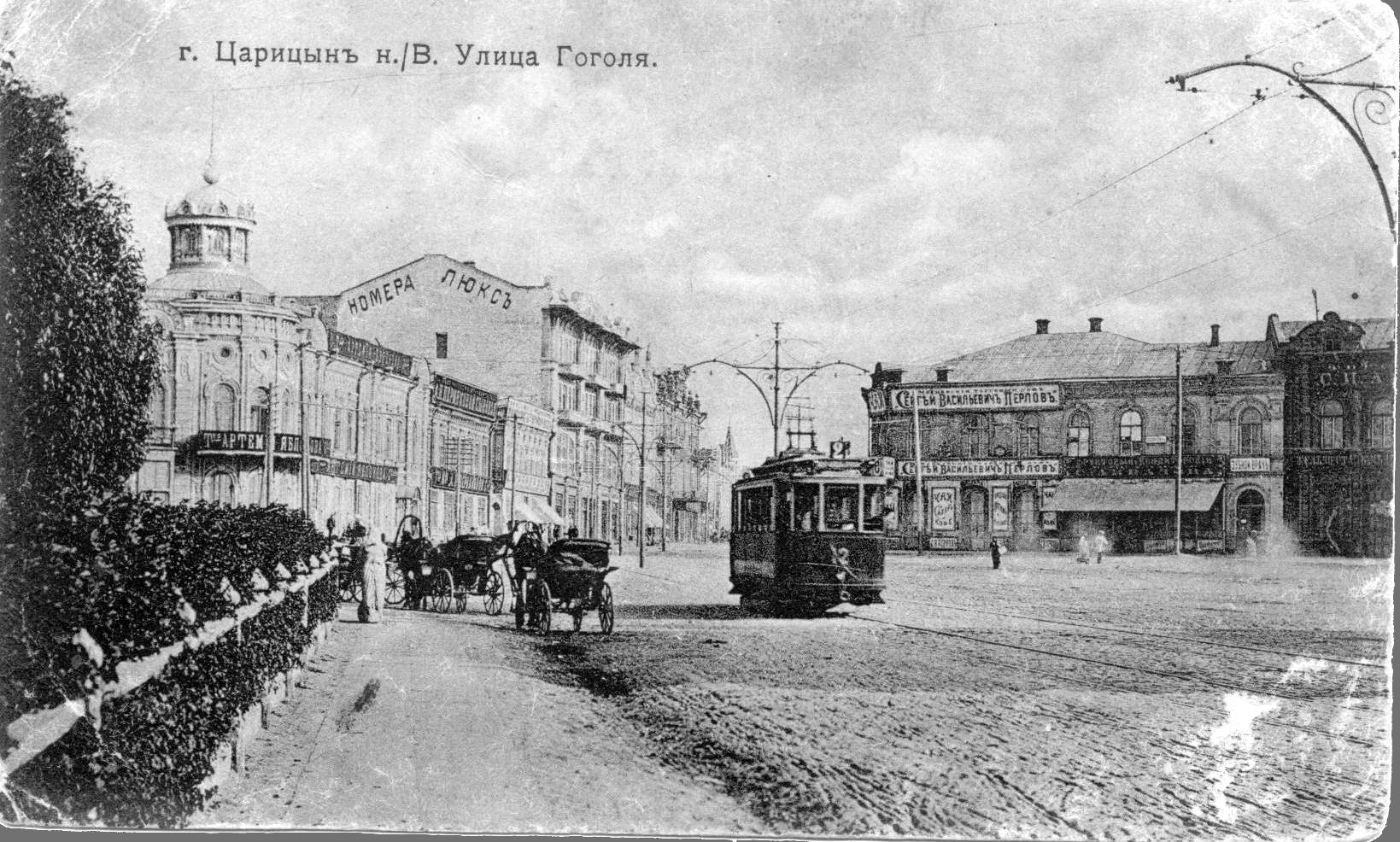 Gogolya Street in Tsaritsyn — (present day Volgograd).